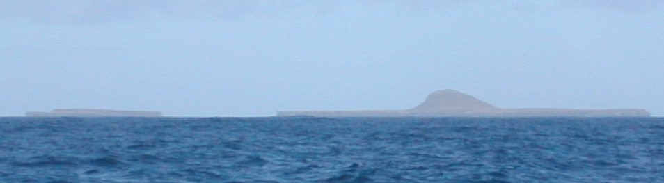 Treshnish Isles: Bac Beag and Bac Mór (also known as Dutchman's Cap due to its shape).